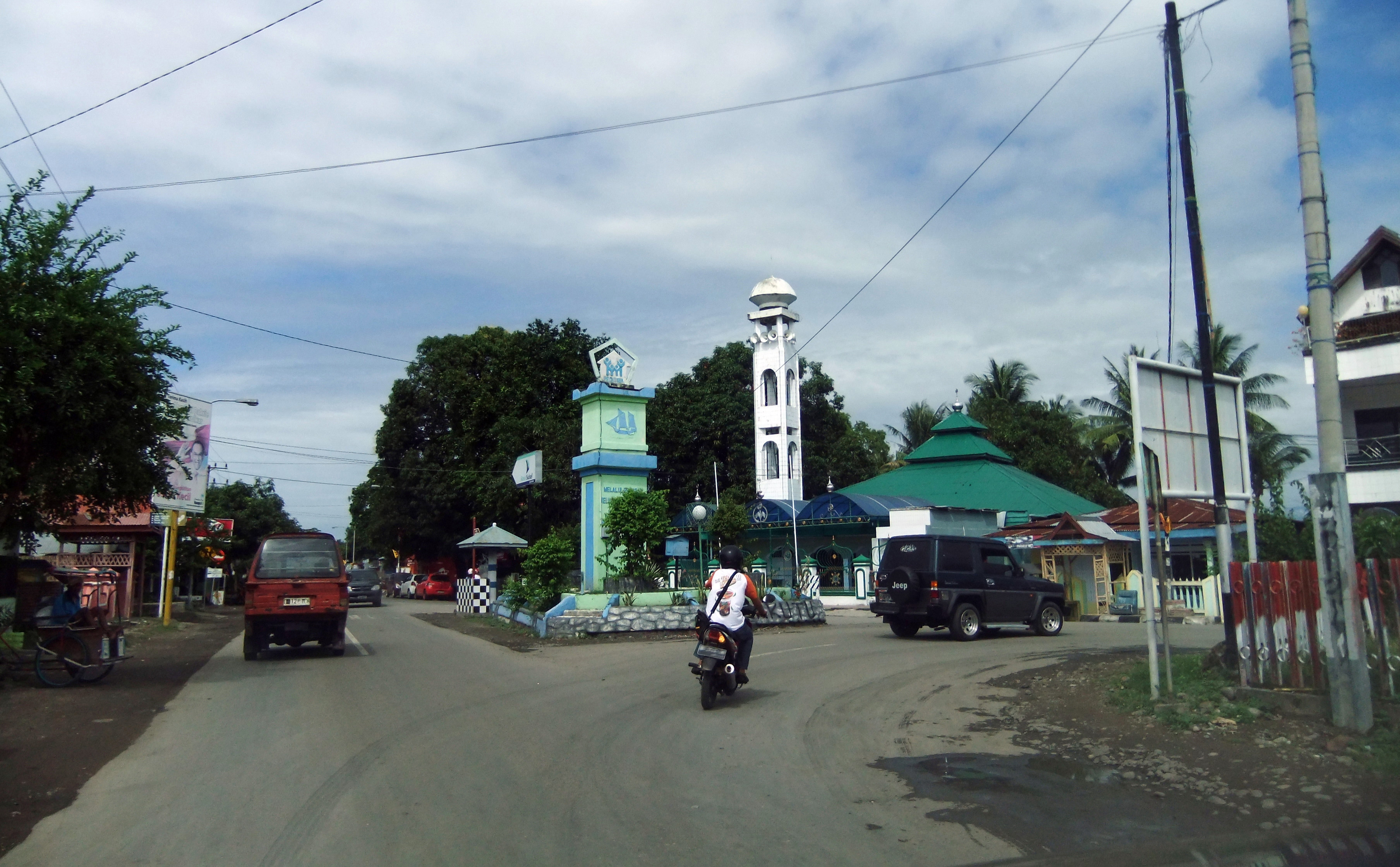 Bulukumba Regency, South Sulawesi